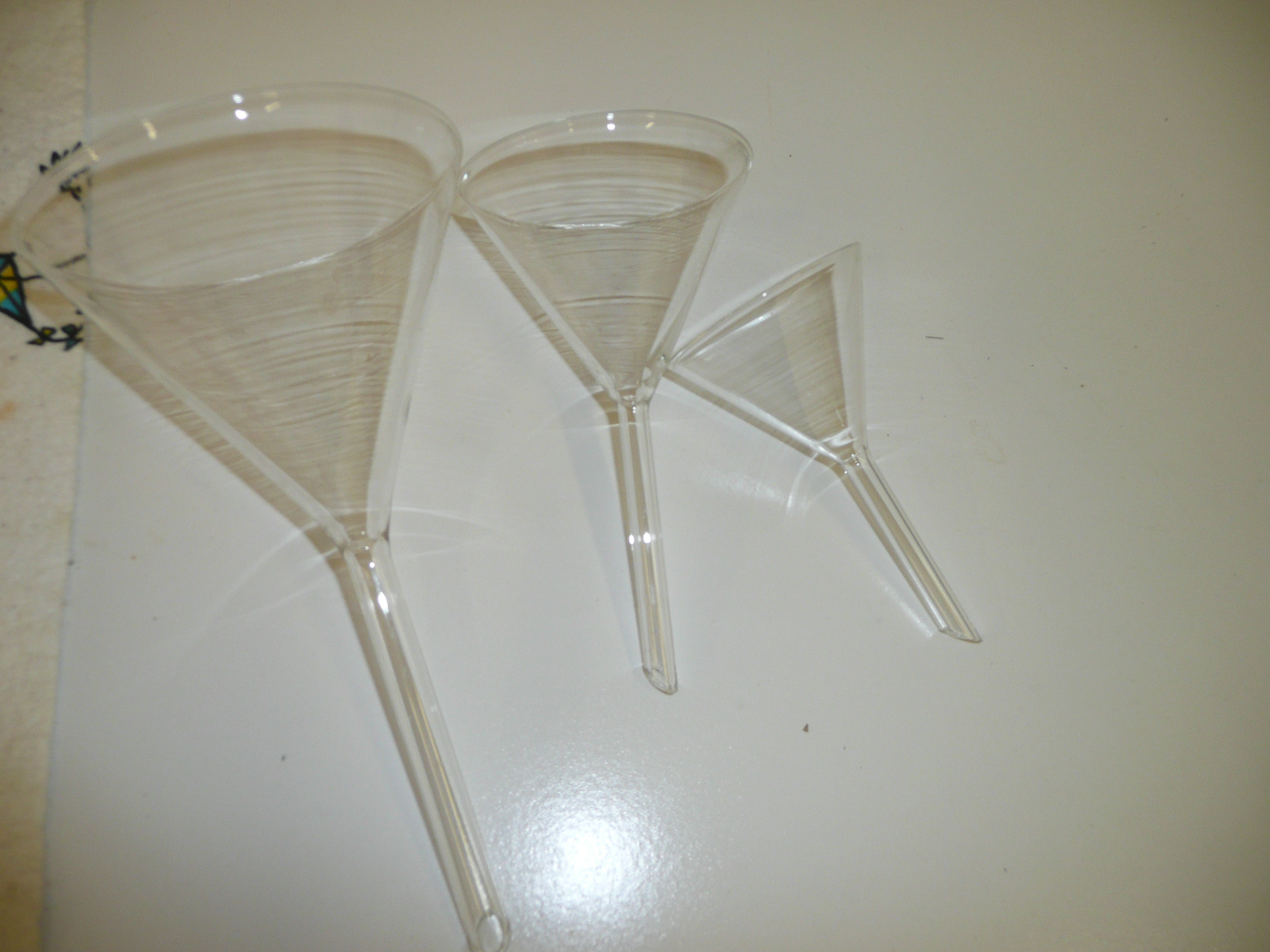 Glass funnels